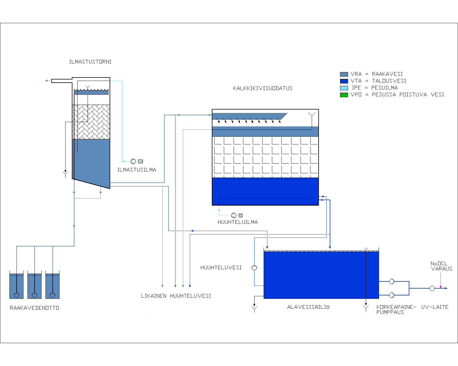 In Finland groundwater is typically acidic and soft that requires treatment. Before distribution water is disinfected.